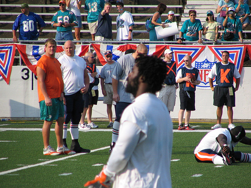 Ricky Williams...check out everyone staring at him when he enters.